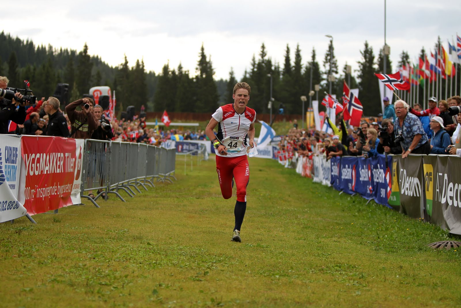 Carl Waaler Kaas at World Orienteering Championships 2010 in Trondheim, Norway